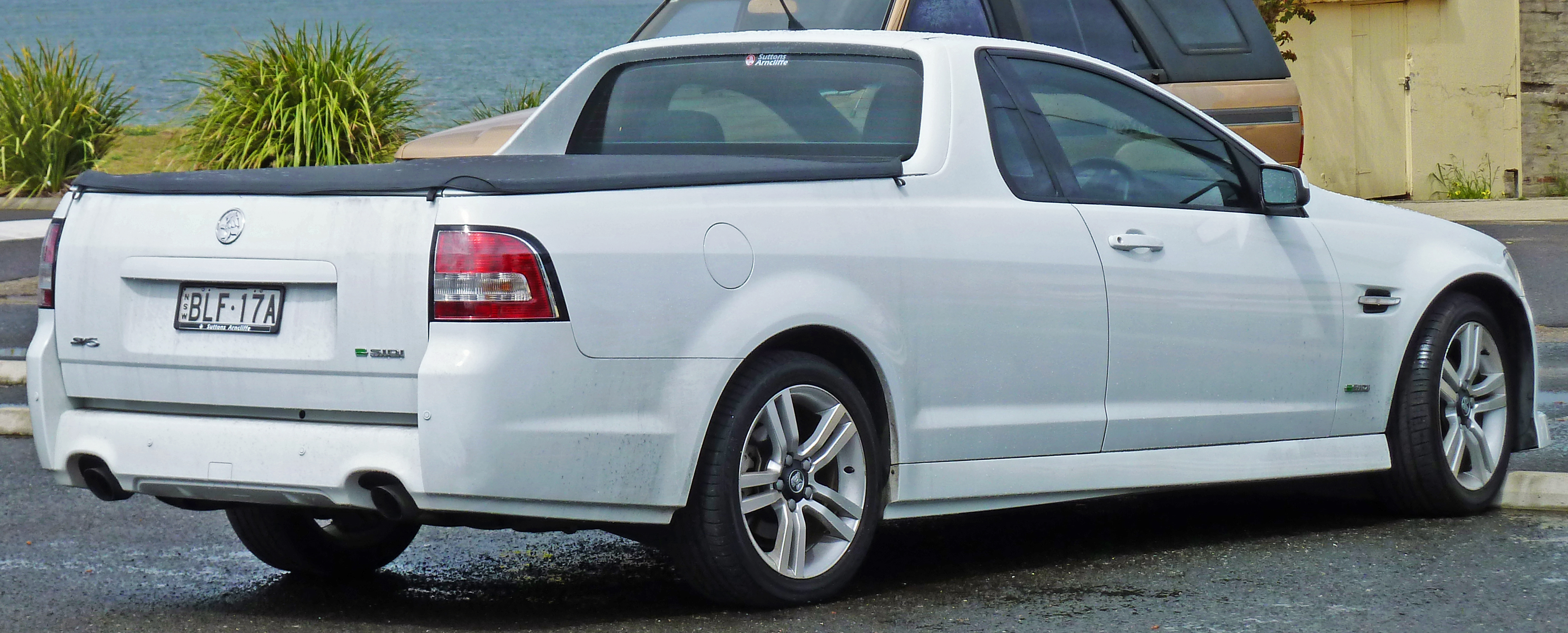 2009–2010 Holden Ute (VE MY10) SV6. Photographed in Sans Souci, New South Wales, Australia.